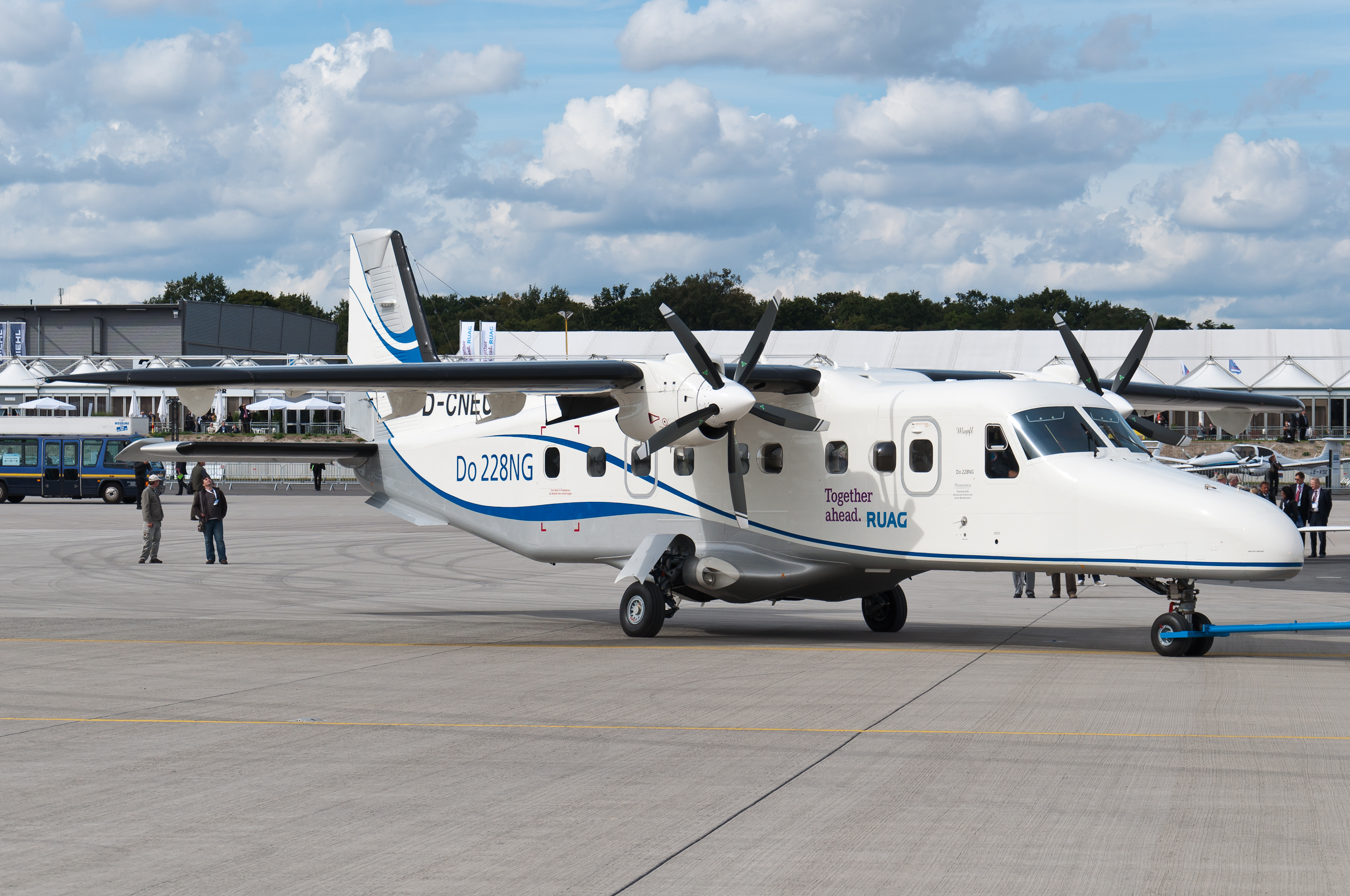 Dornier Do 228NG (D-CNEU), produced by RUAG Aviation, on its way to fly a display at ILA Berlin Air Show 2012.